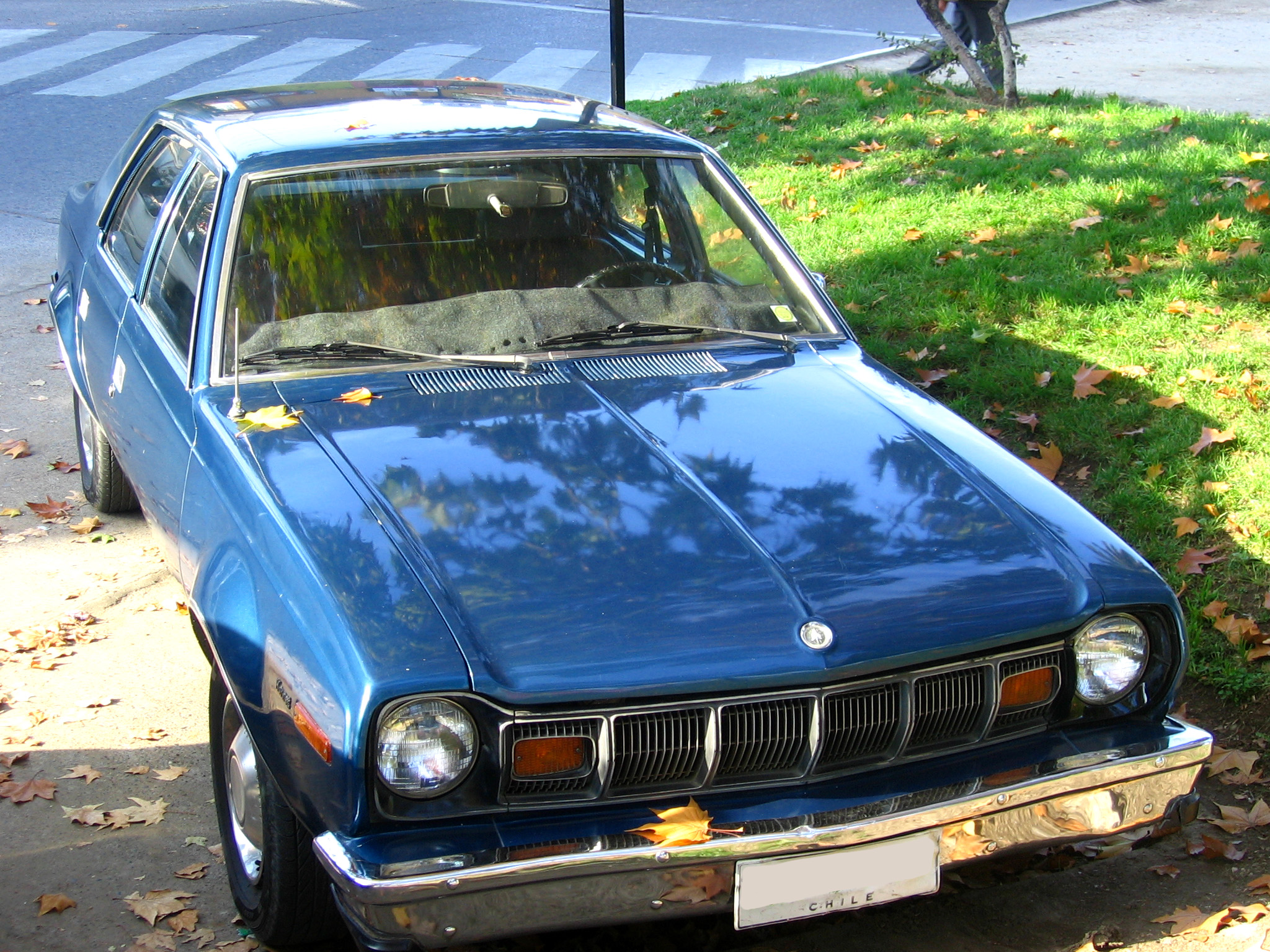 AMC Hornet sedan 1977 photographed in Chile